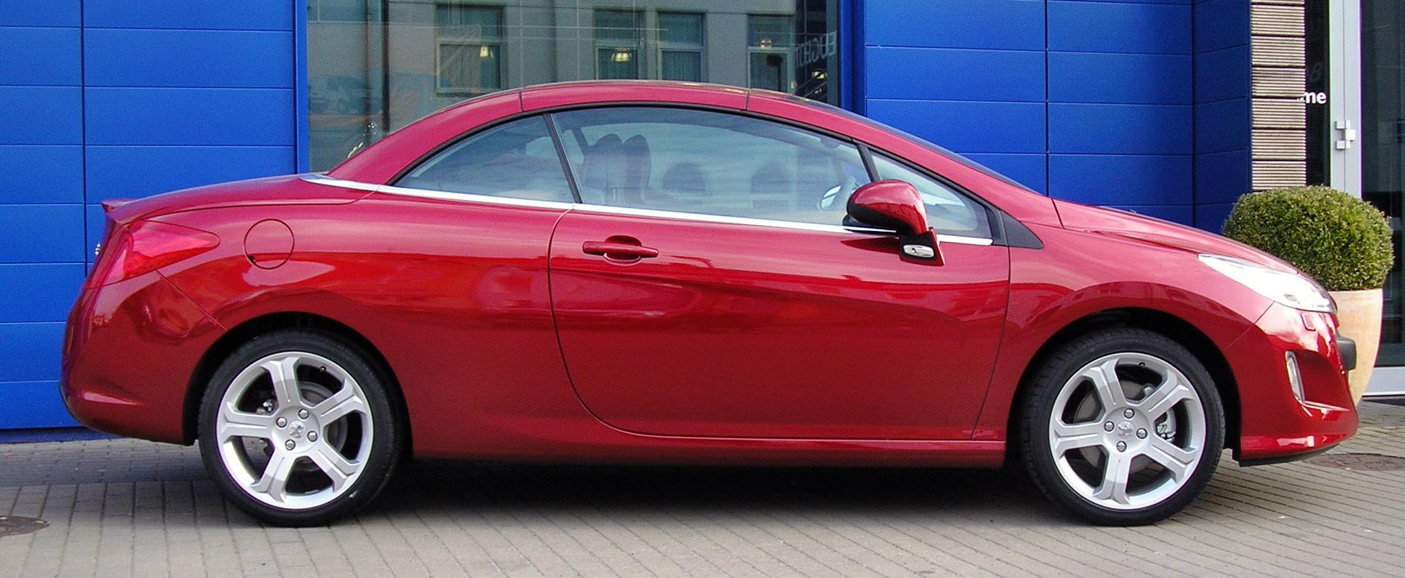 Peugeot 308 CC Sideview.JPG